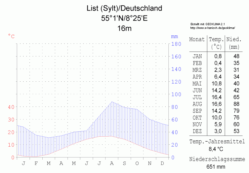 climate chart in the format by Walther and Lieth, metric, °Celsisus and millimeters, made with Geoklima 2.1